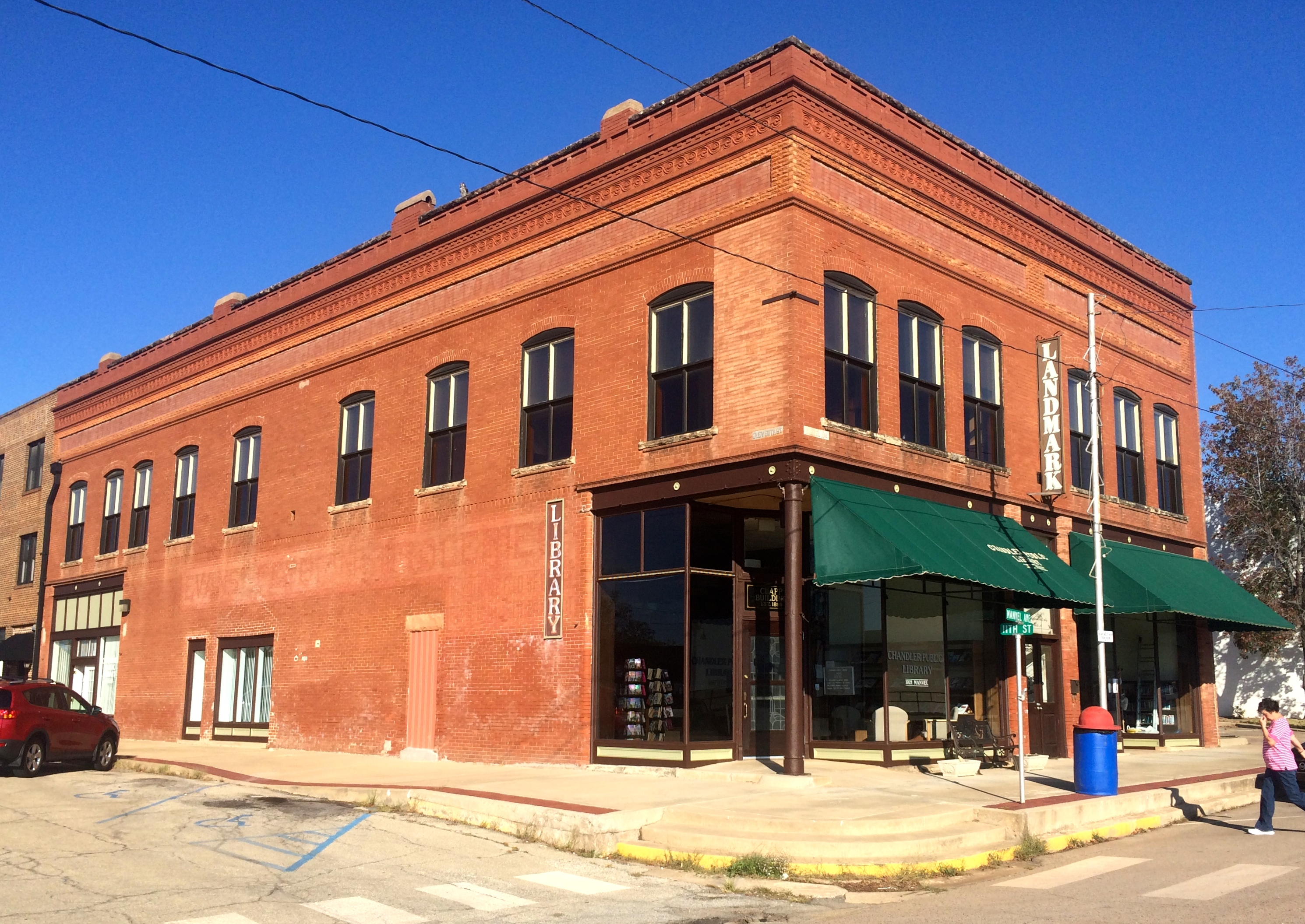 Clapp-Cunningham Building, 1021 Manvel Ave. Chandler. Now used as the Chandler Public Library.